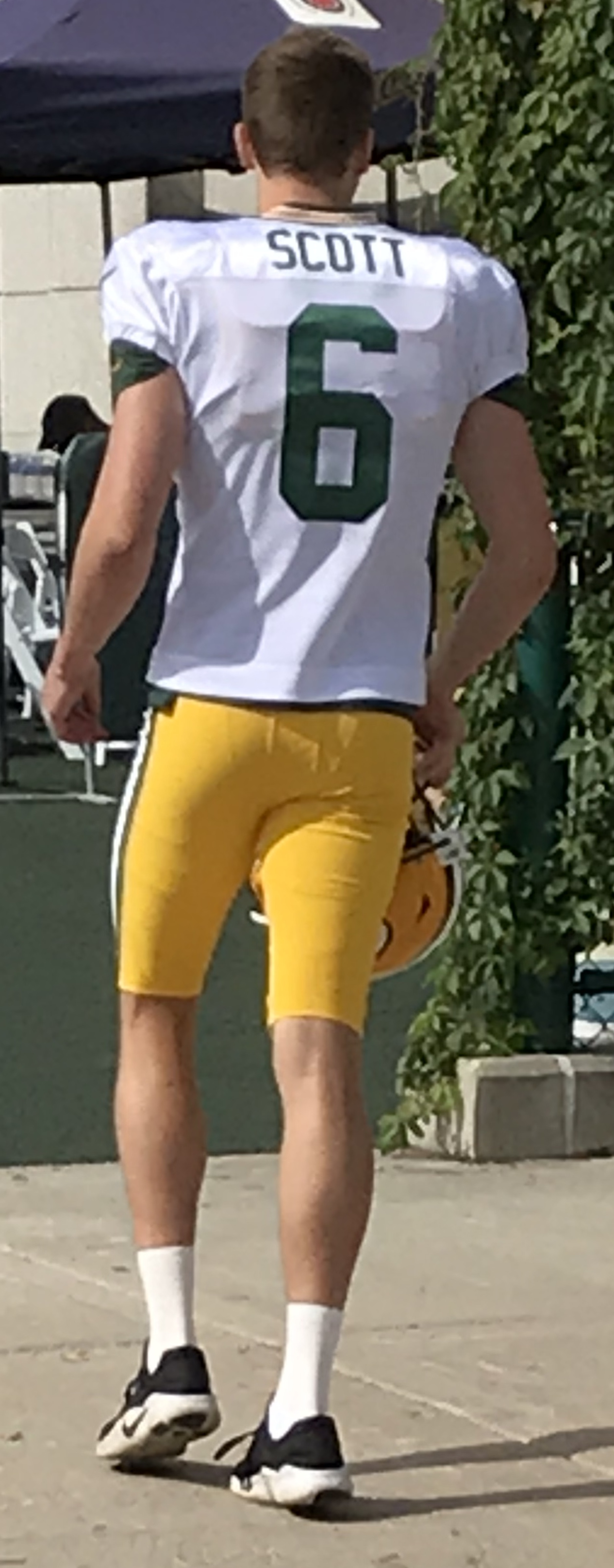 JK Scott, a punter for the Green Bay Packers, before a training camp practice on August 13, 2019.